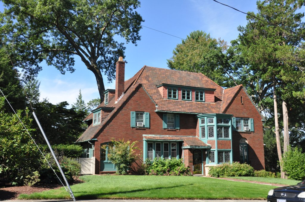 North End Historic District, Woonsocket, Rhode Island